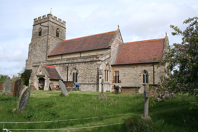 Church of England parish church of St James the Less, Sulgrave, Northamptonshire: view from the southeast